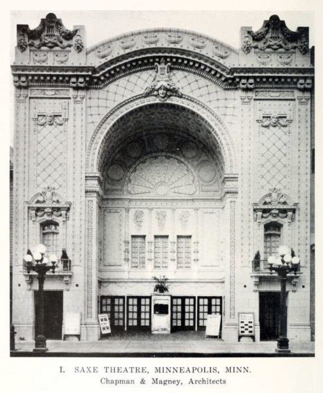 Card displaying a view of the exterior of Minneapolis's Saxe Theater, then the Strand Theater, and later the Forum Cafeteria.